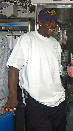 U.S. Navy Lt. David Ridings, the navigator on board fast attack submarine USS Columbus (SSN 762), explains the day-to-day activities aboard the submarine to Baltimore Ravens inside linebacker Bart Scott and Green Bay Packers wide receiver Donald Driver at Pearl Harbor, Hawaii, Feb. 7, 2007. Scott and Driver, both in town for the NFL Pro Bowl, also visited guided-missile frigate USS Ruben James (FFG 57). (U.S. Navy photo by Mass Communication Specialist Cynthia Clark) (Released) (Released to Public)